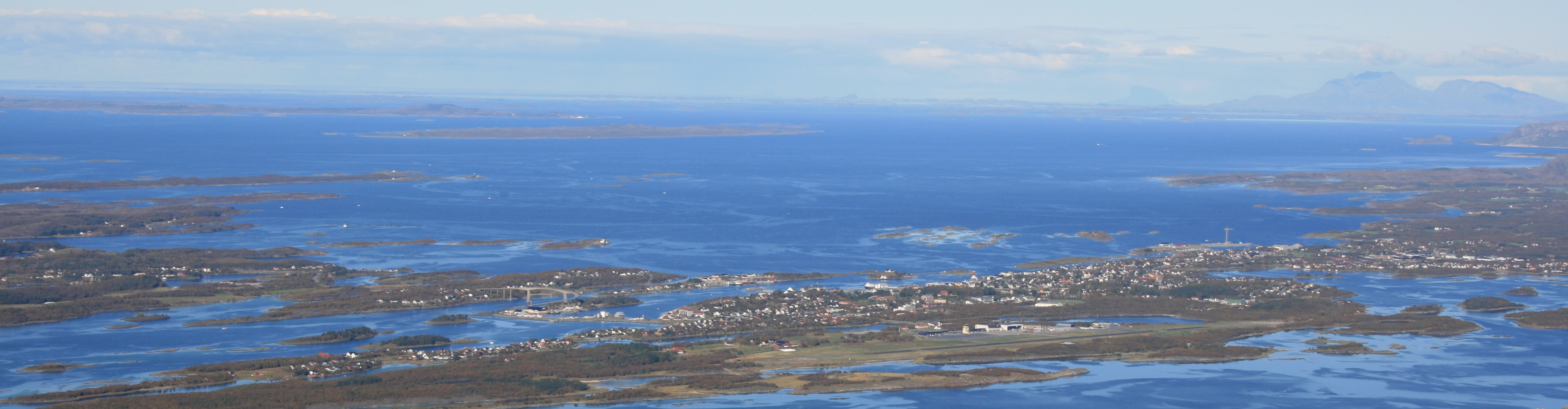 Brønnøysund photographed from mountain Trælneshatten to the south.